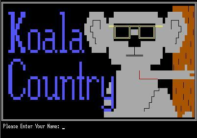 Koala Country BBS Login Screen - The screen that is displayed to the caller to logon to the BBS - Koala Country BBS (GT Net: 302/016) was operated by Warren Leadbeatter (Sysop) from Oct 1989 to Feb 1995